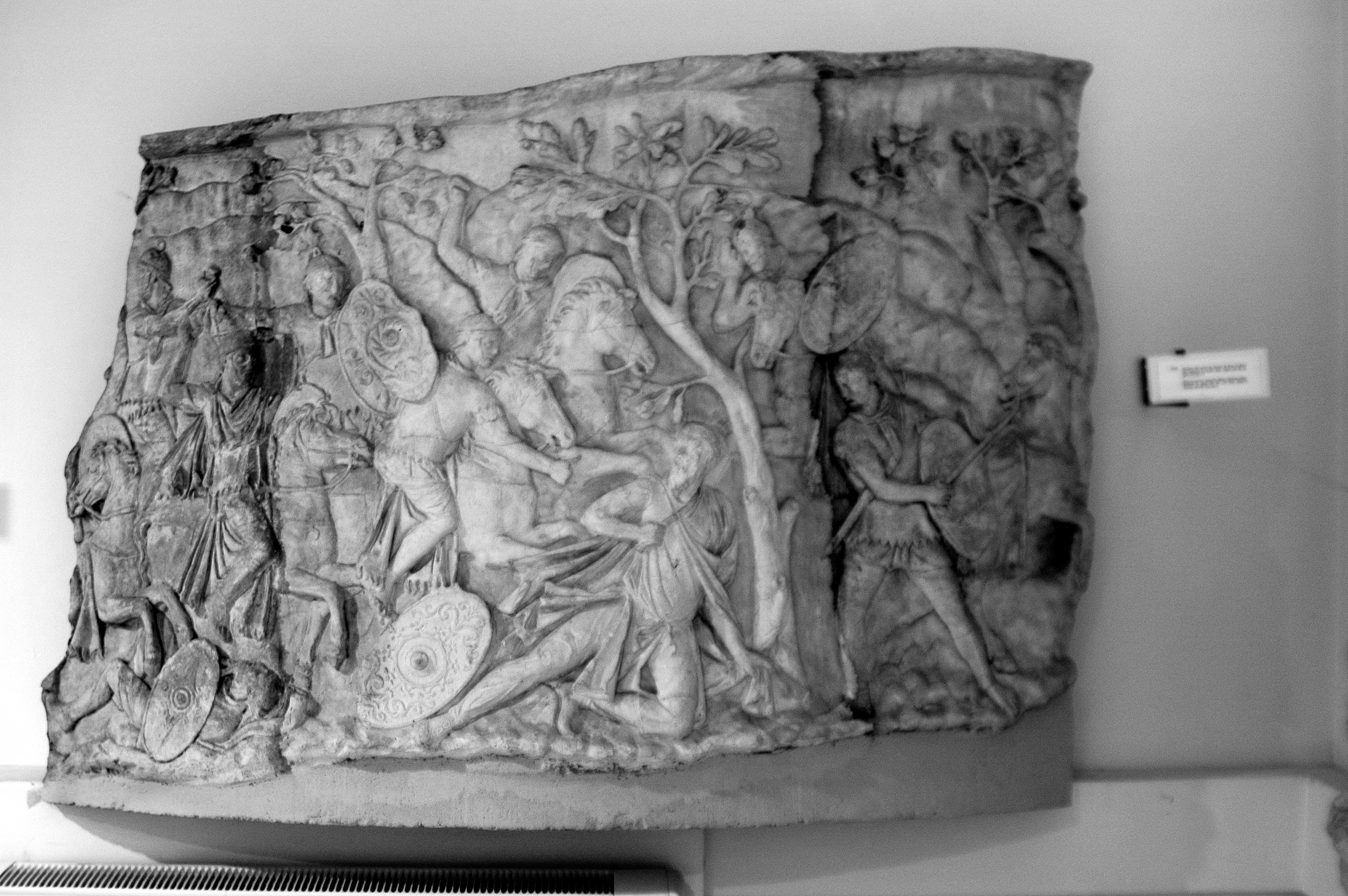 Decebalus, king of the Dacians, dying by his own hand during his retreat after the Battle of Sarmizegetusa; A plaster-cast copy of the Trajan's Column, as shown at the Museum of Romanian History in Bucharest, Romania